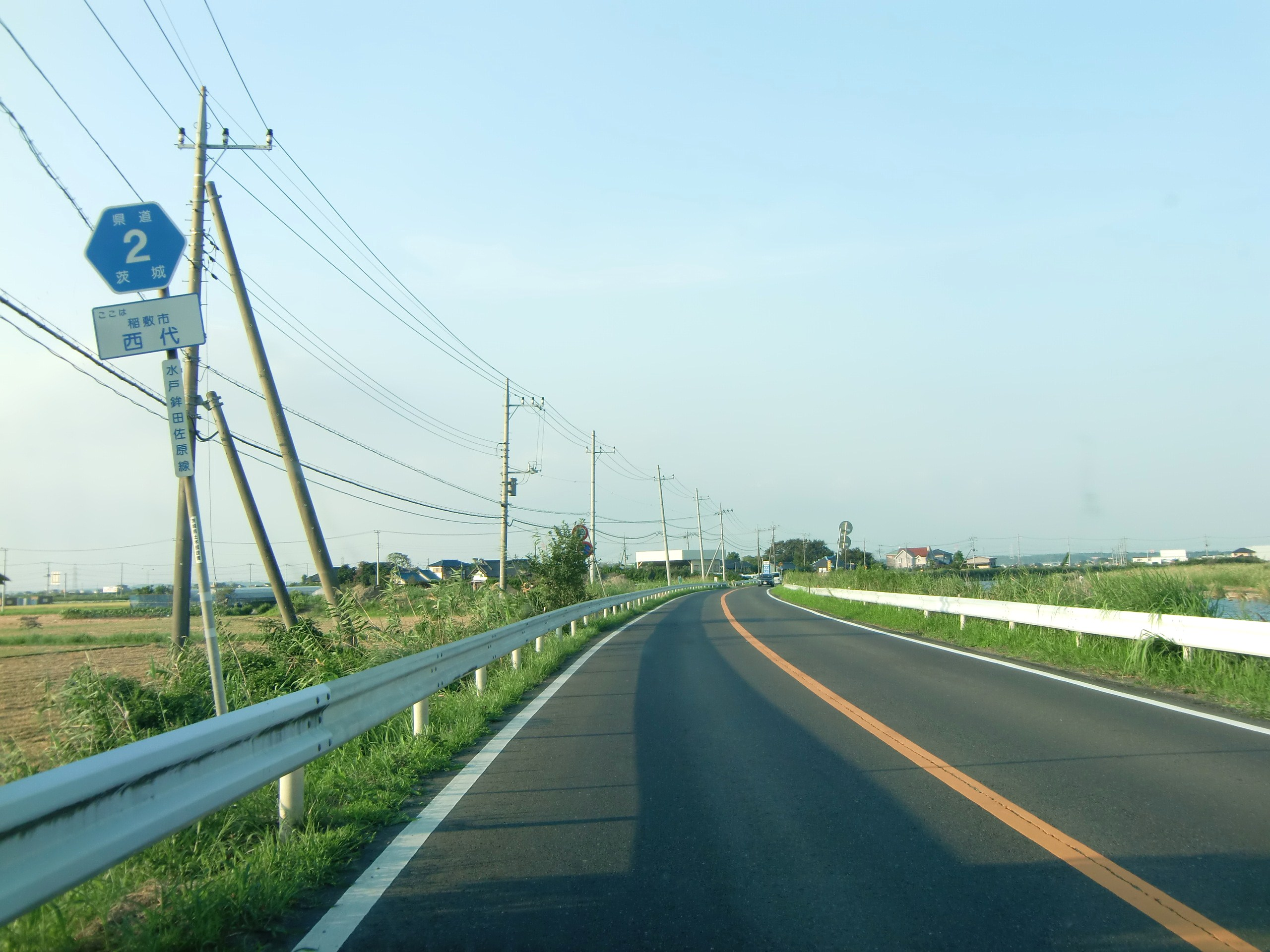 The Ibaraki Prefectural Road Route 2 (Mito-Hokota-Sawara Line) in Nishishiro, Inashiki City